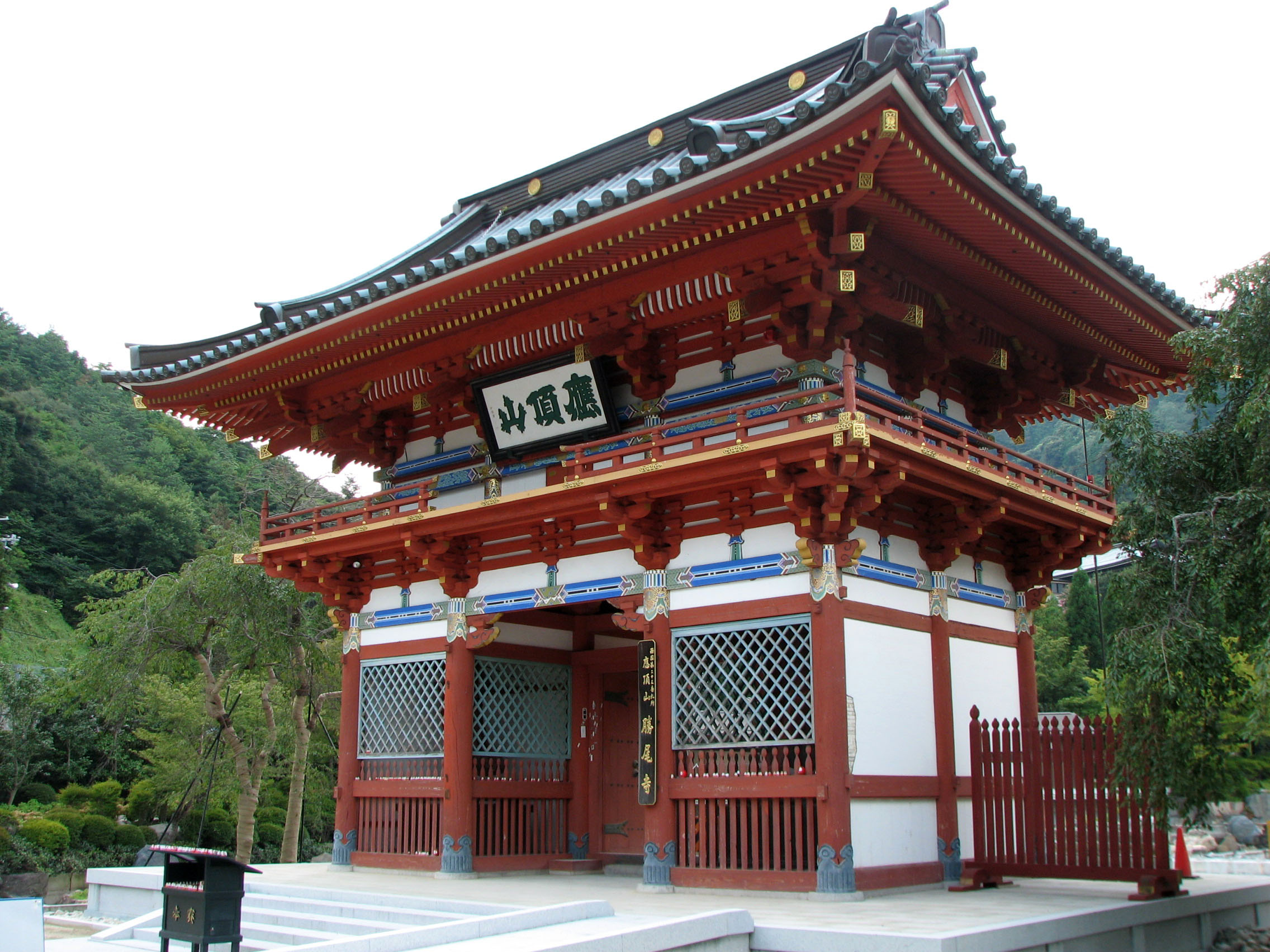 Just behind this gate is a massive construction project. They're building a pond, I believe.....